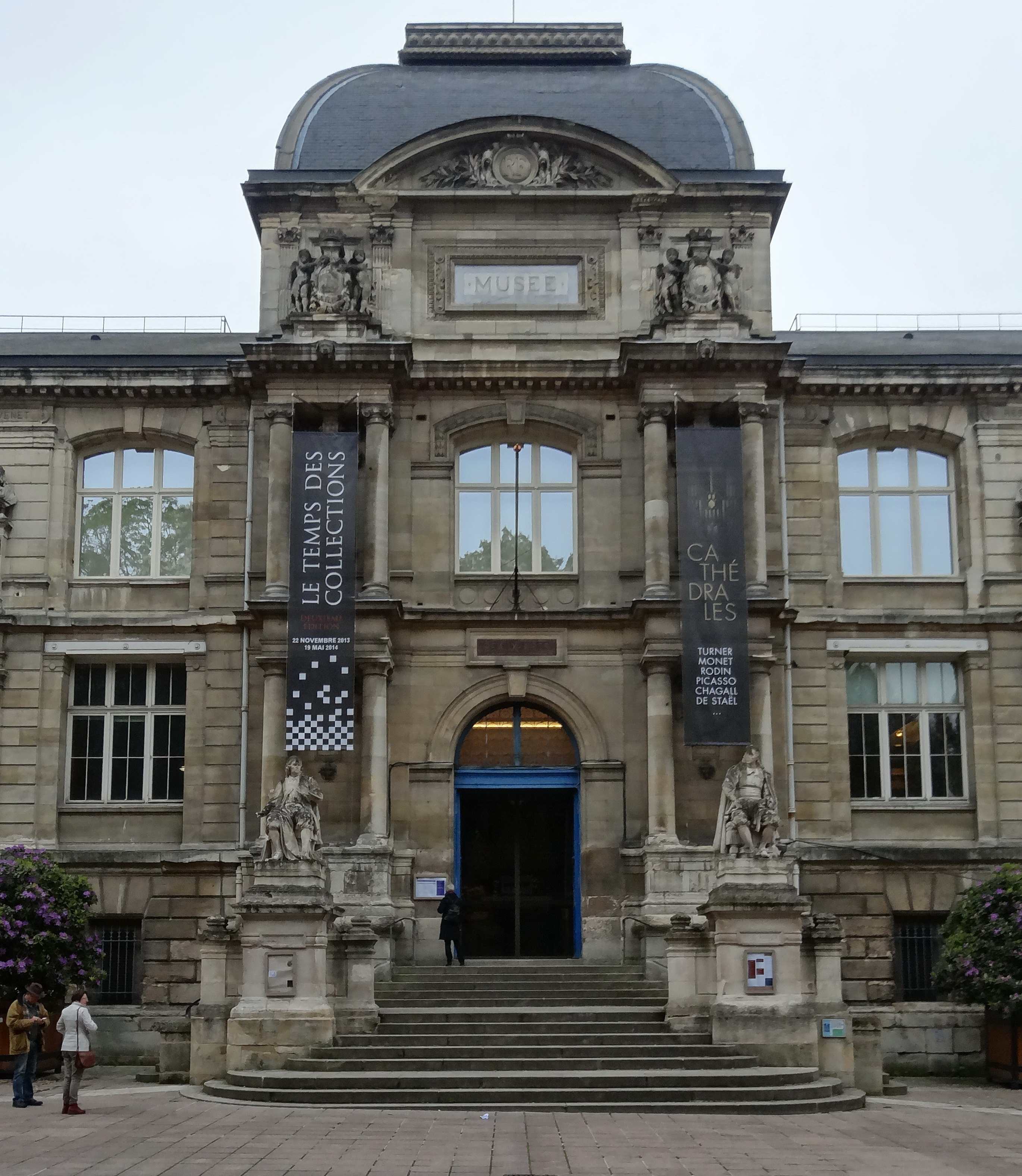 Musée des Beaux-Arts de Rouen - Art museum in Rouen (Haute-Normandie)